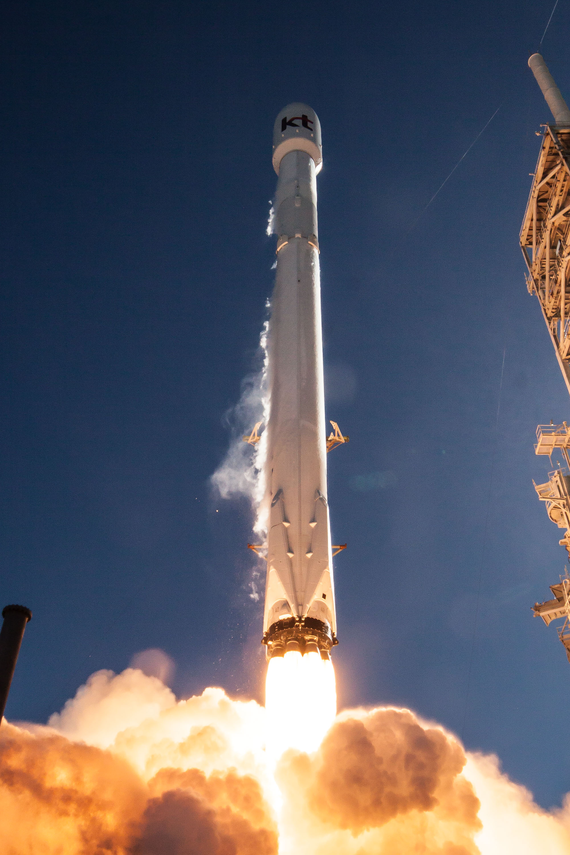 Koreasat-5A Mission